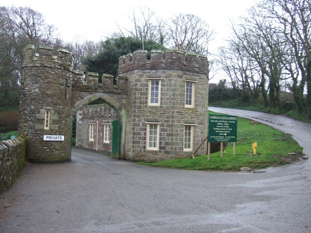 Main entrance gatehouse to Caerhayes Castle. There is a picture of the castle in SW9741. The gatehouse is at the start of a long, gentle drive through the woods, noted for the magnolias, rhododendrons and azaleas collected on behalf of, and developed by, the Williams family of the castle